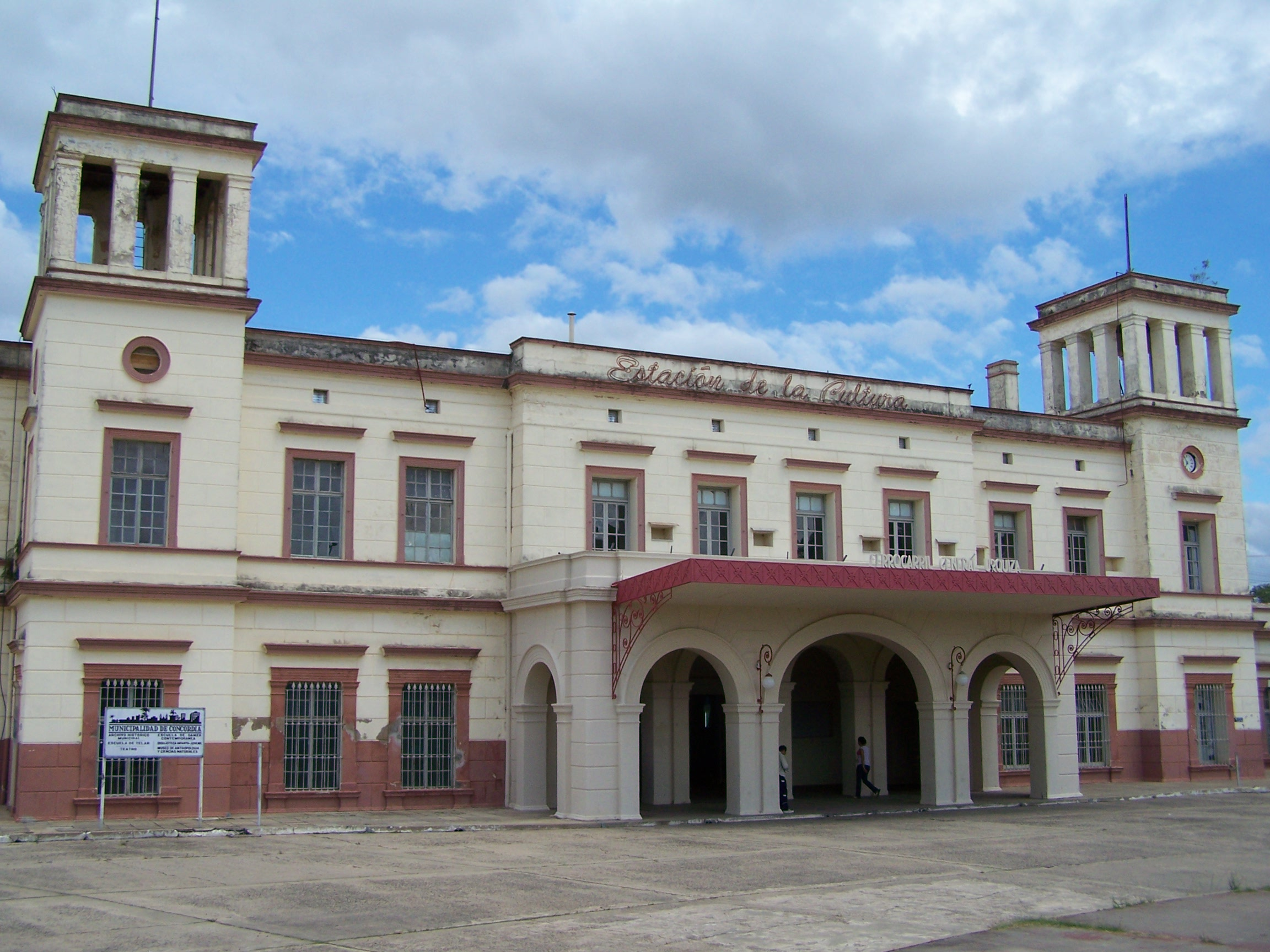 Concordia train sdtation of the Ferrocarril General Urquiza, Concordia, province of Entre Ríos, Argentina